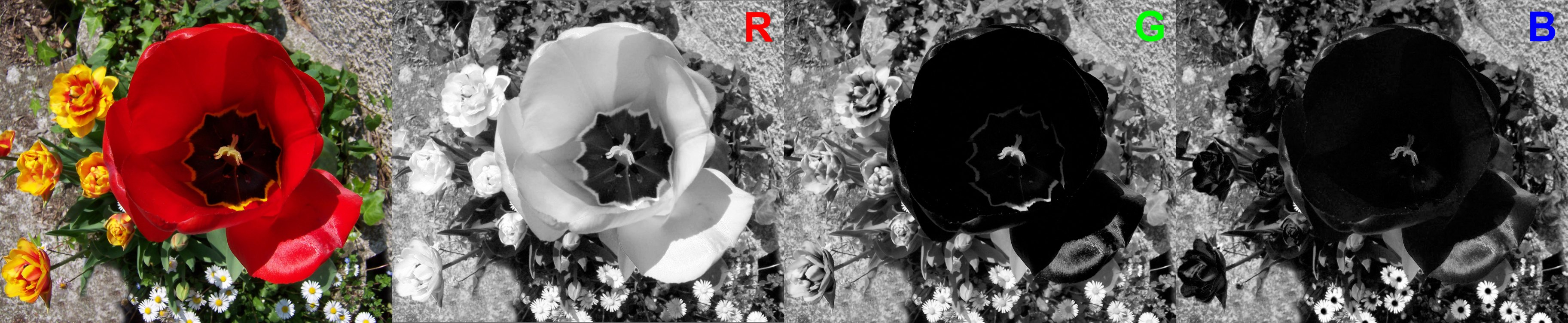 RGB color separation positives in B&W